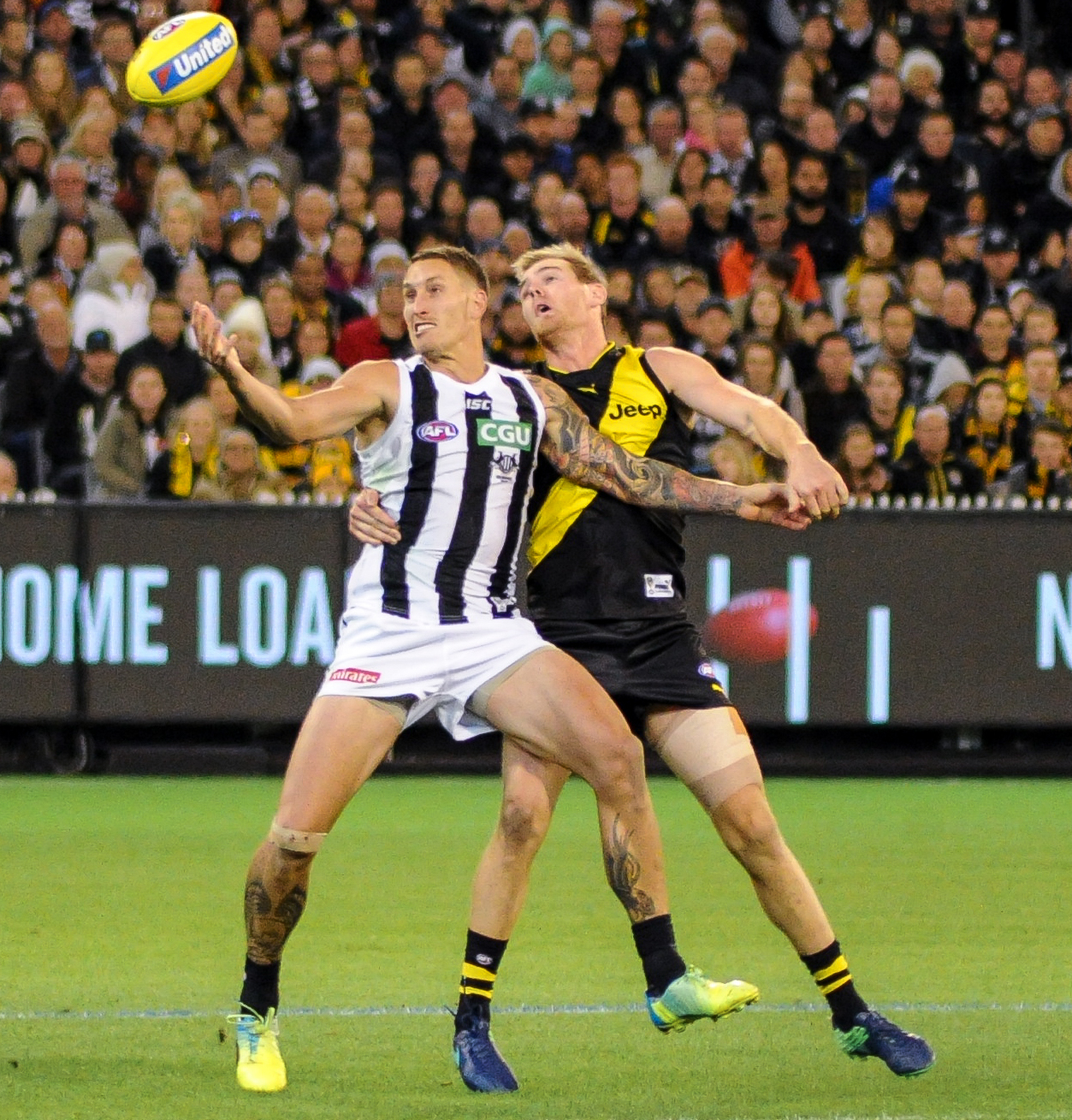 Jesse White attempted mark during the AFL round two match between Richmond and Collingwood on 30 March 2017 at the Melbourne Cricket Ground in Melbourne, Victoria.